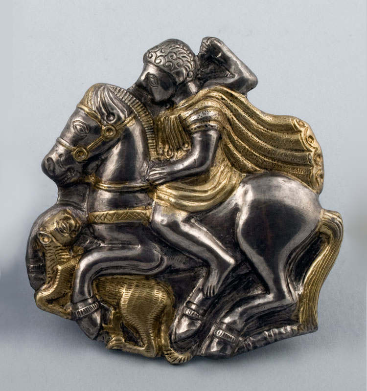 A photo from the exhibition of the Lukovit Thracian treasure in the Lovecг history museum